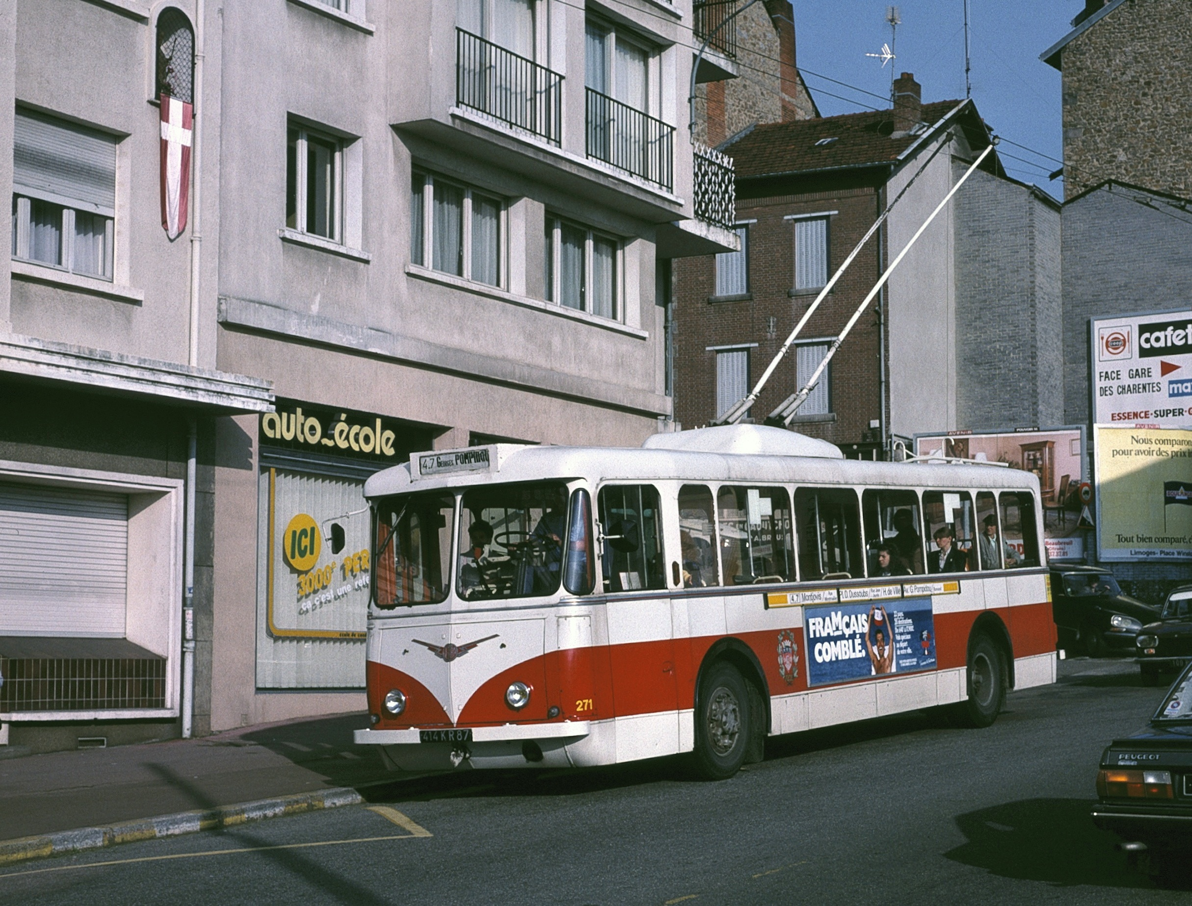 Limoges Vétra trolleybus 271, southbound on route 4/7 (nowadays just "4") in 1988. It is travelling southeastwards on Rue Montmailler at Rue de Beaupuy, pulling into the bus stop named "Gare Montjovis". No. 271 is a 1950-built Vétra VBRh trolleybus and originally served the Paris trolleybus system. It was acquired secondhand by Limoges in 1966 and entered service there in 1971. It remained in service until 1989.